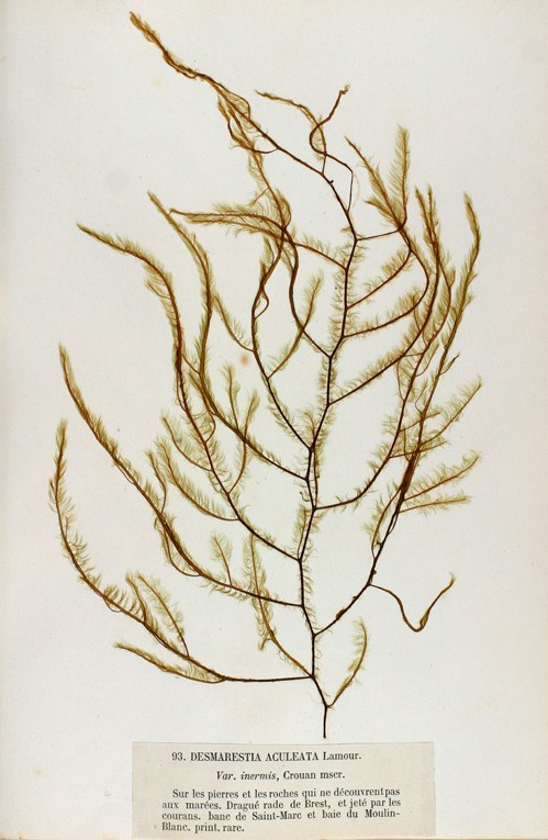 « Desmarestia aculeata var. inermis » = Desmarestia aculeata